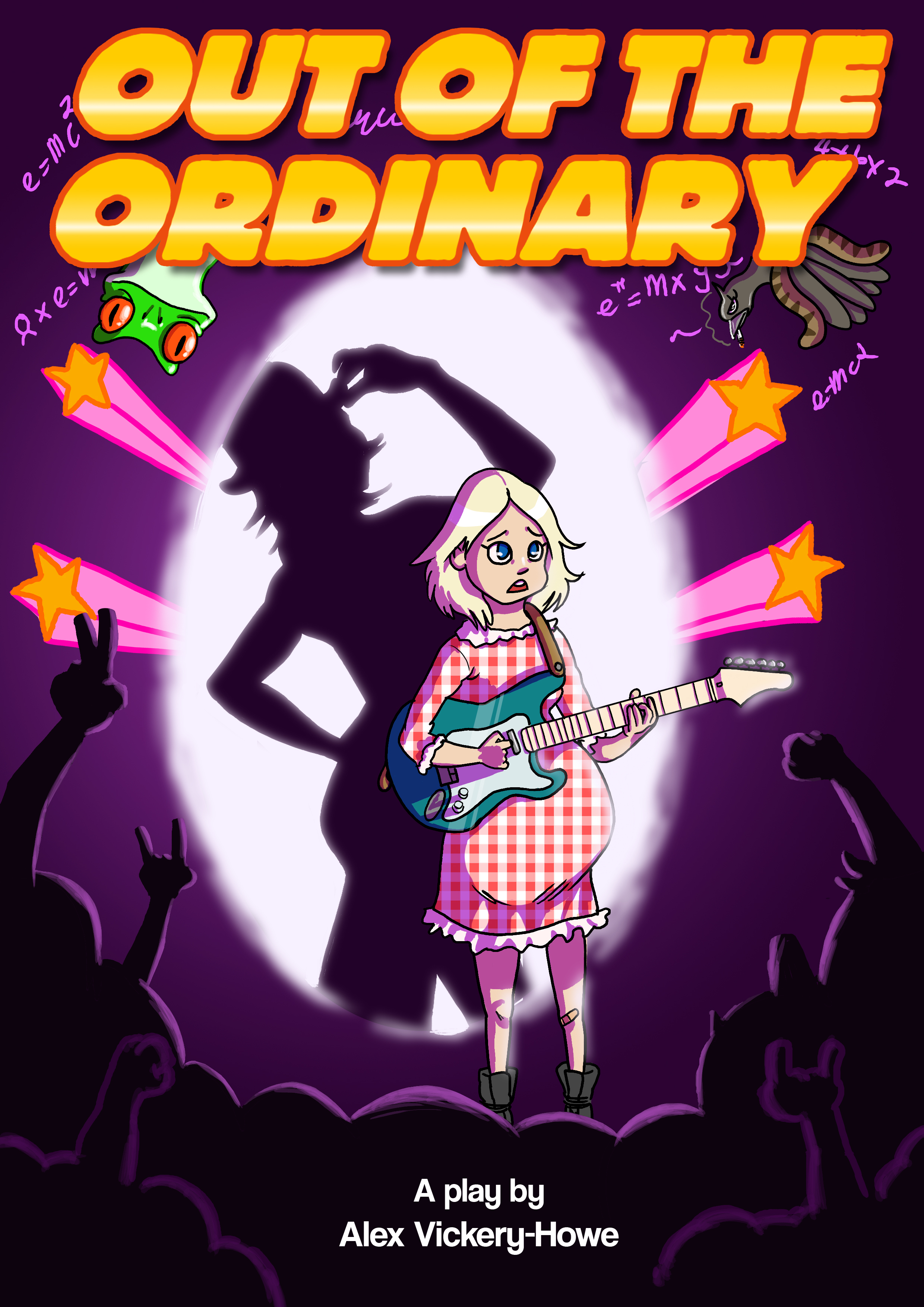 Cover for the screenplay of Out of the Ordinary